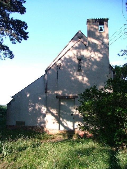 Chapel, Picton, North Yorkshire